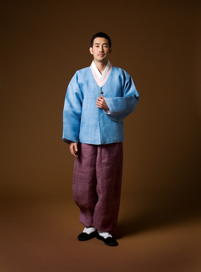 A man in male hanbok consisting of magoja (jacket) and baji (trousers)